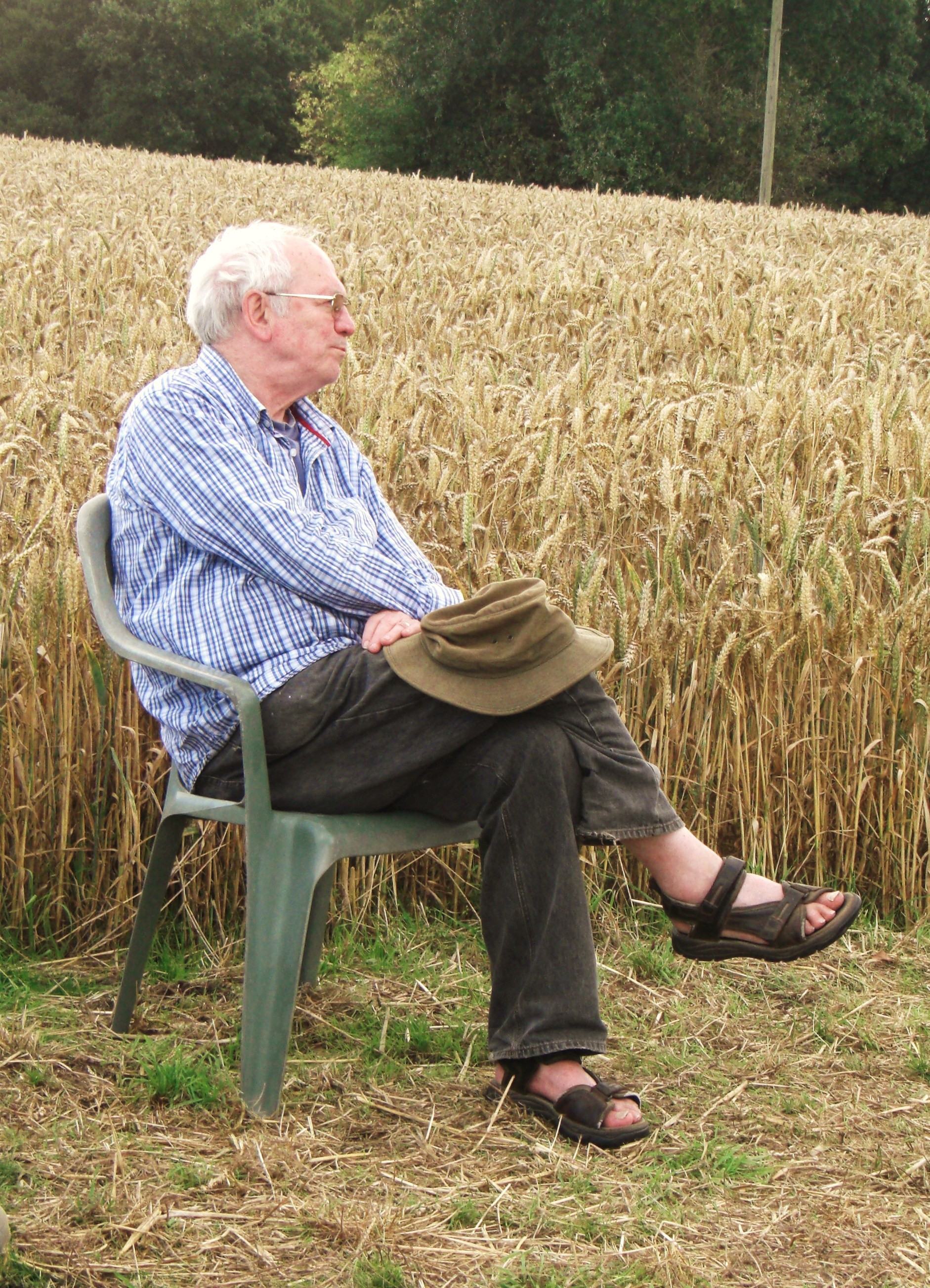 English novelist Alan Garner at his home of Blackden in Cheshire.